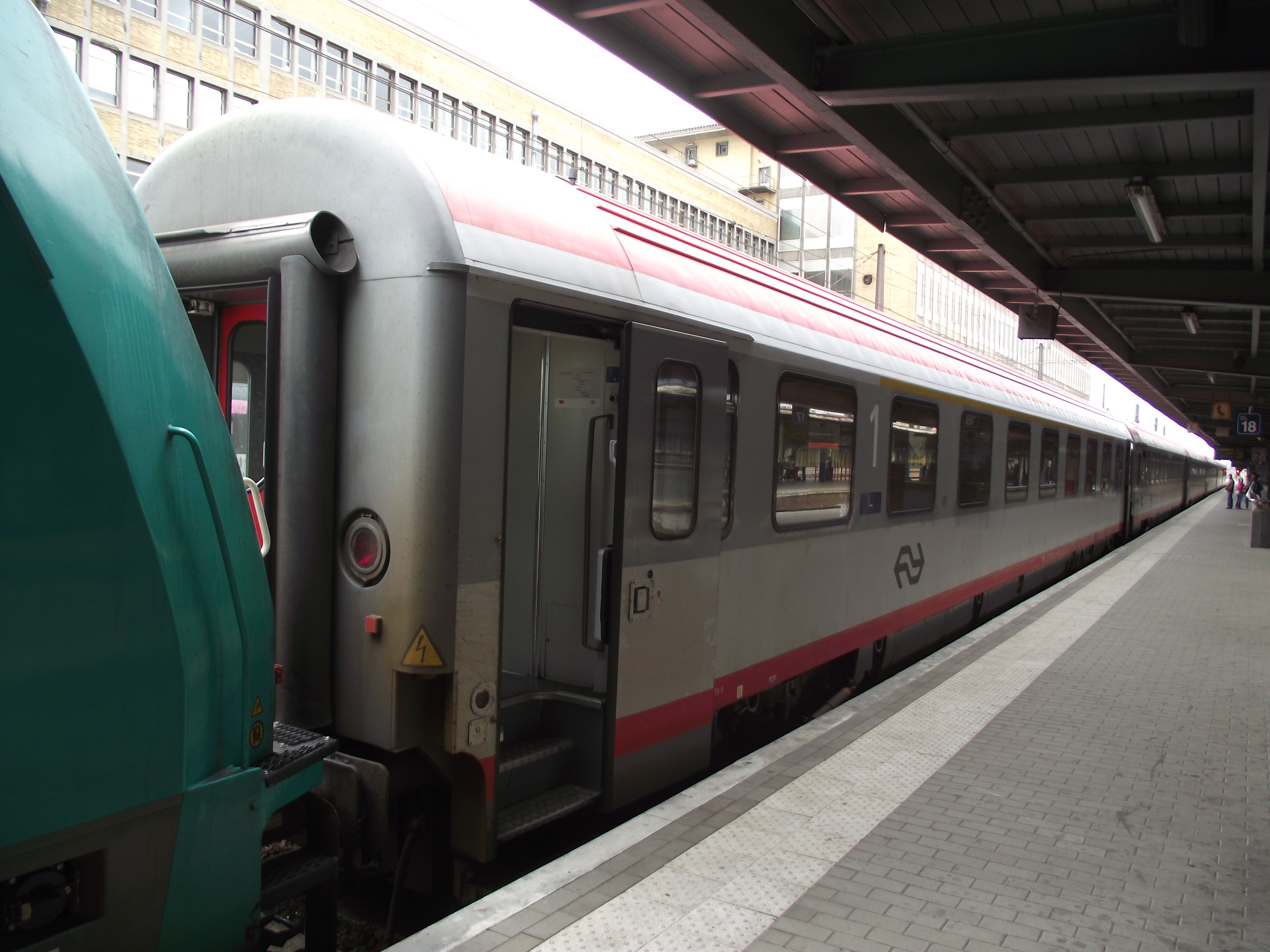 Hired Austrian coaches used in the Benelux service